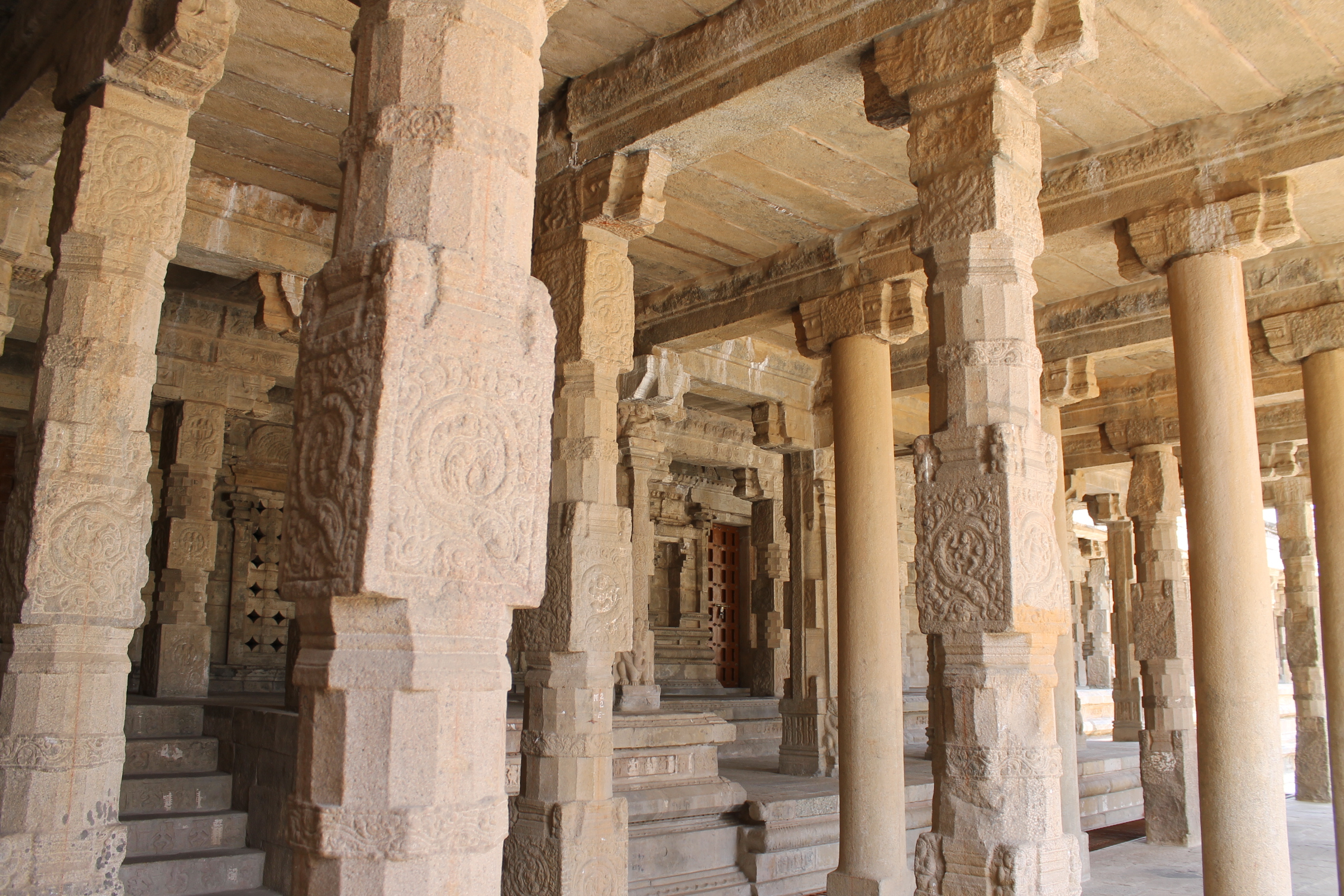 "Amazing pillars and beams in World Heritage Monument Airavatesvara Temple". Location: Chatram, Darasuram, near Kumbakonam, Thanjavur District, Tamil Nadu, India.